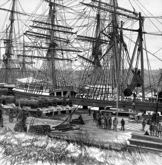 Original caption: "The S.S. ‚Earl of Zetland‘, discharging locomotives at the Circular Quay, Sydney ."